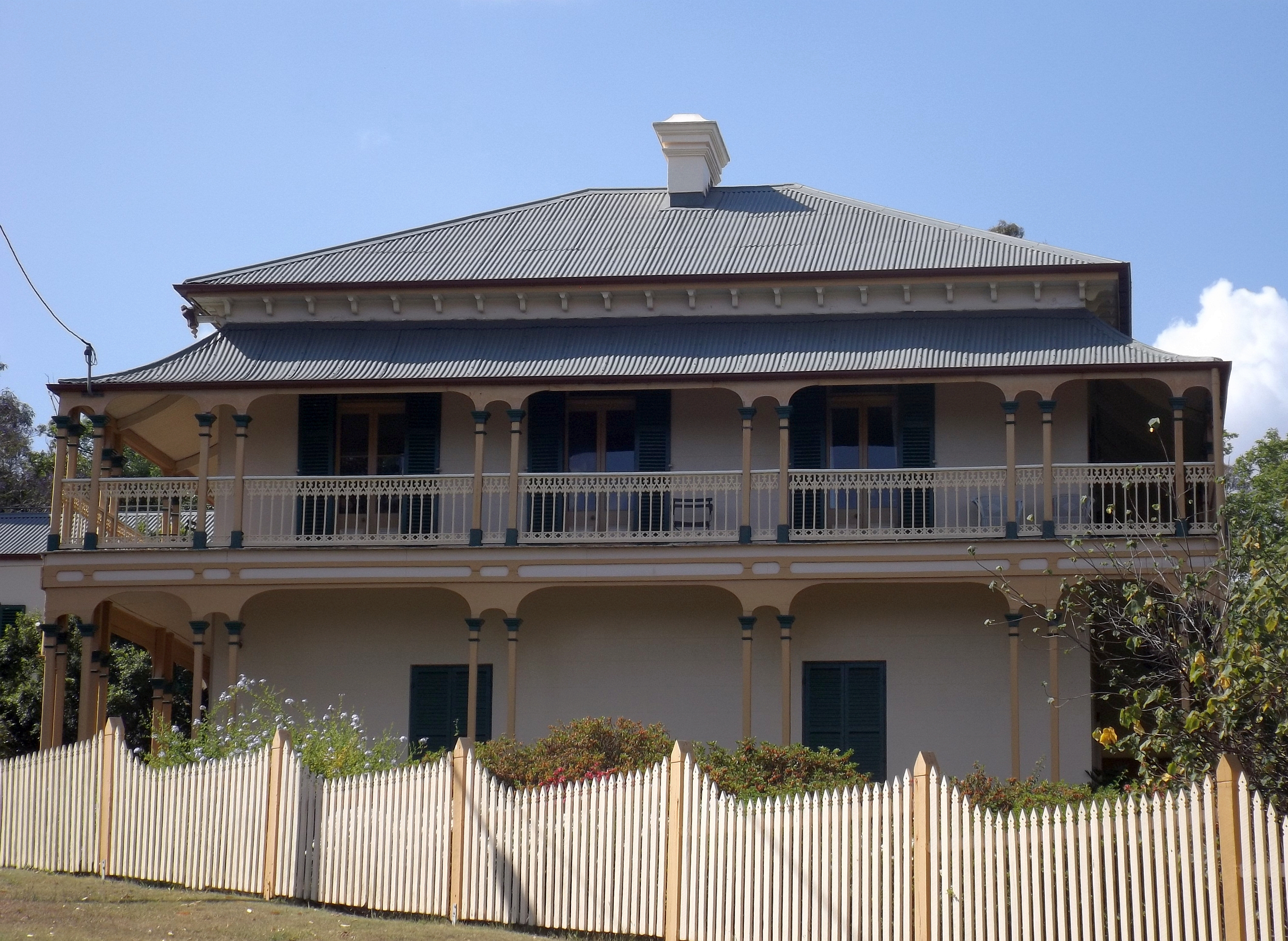 Photo of Gooloowan residence from Quarry Street, Ipswich, Queensland, Australia.